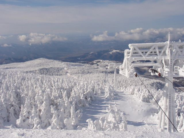 zao onsen ski area (YAMAGATA,JAPAN)